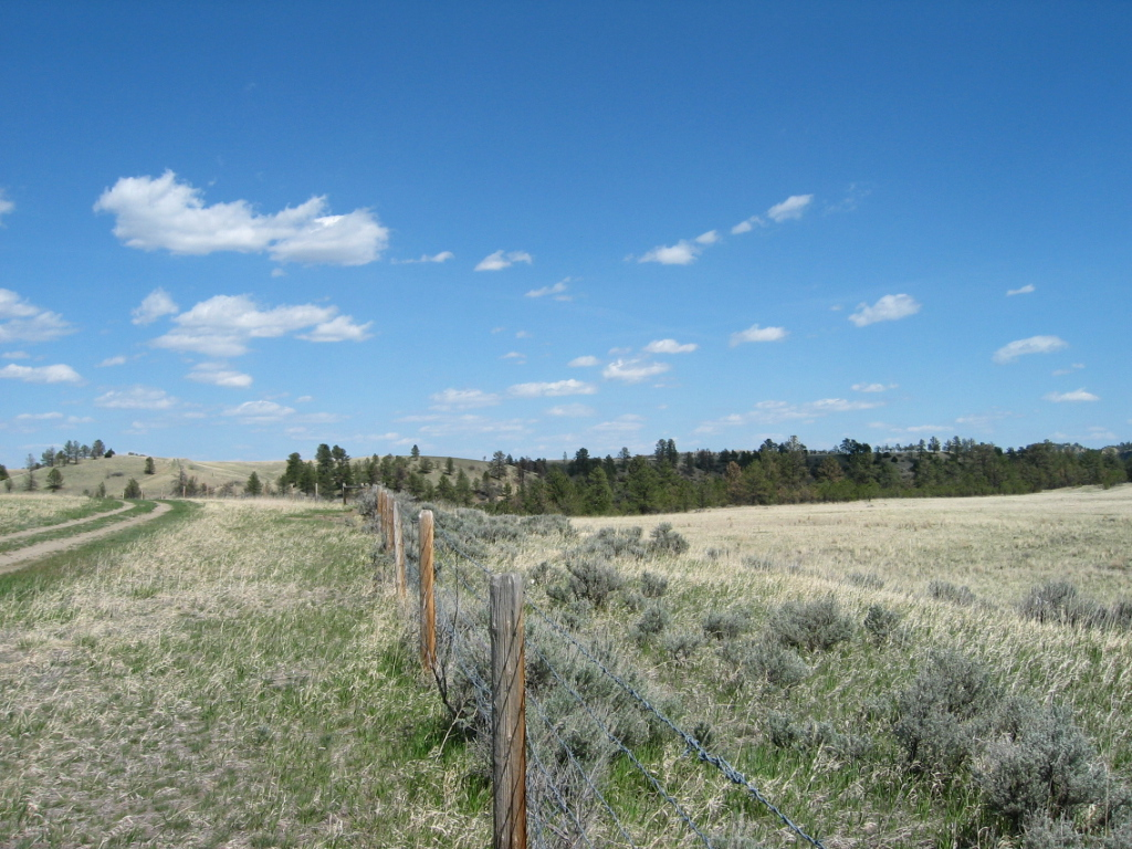 North Dakota Wilderness off Interstate 94.